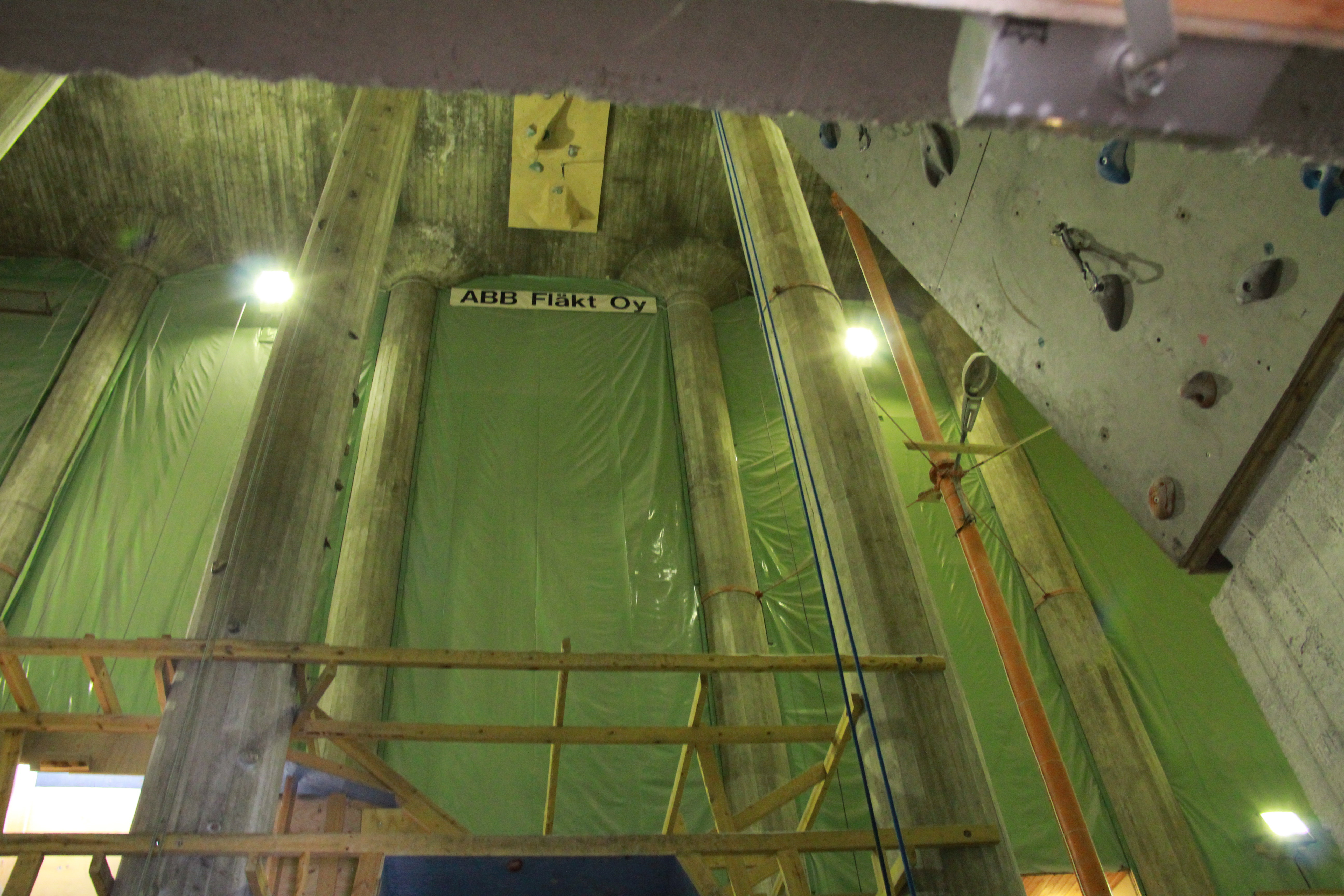 Water tower, Yliopistonmäki, Turku, Finland. Completed 1941, architects Erik Bryggman and Albert Richardtson. Indoor climbing gym.